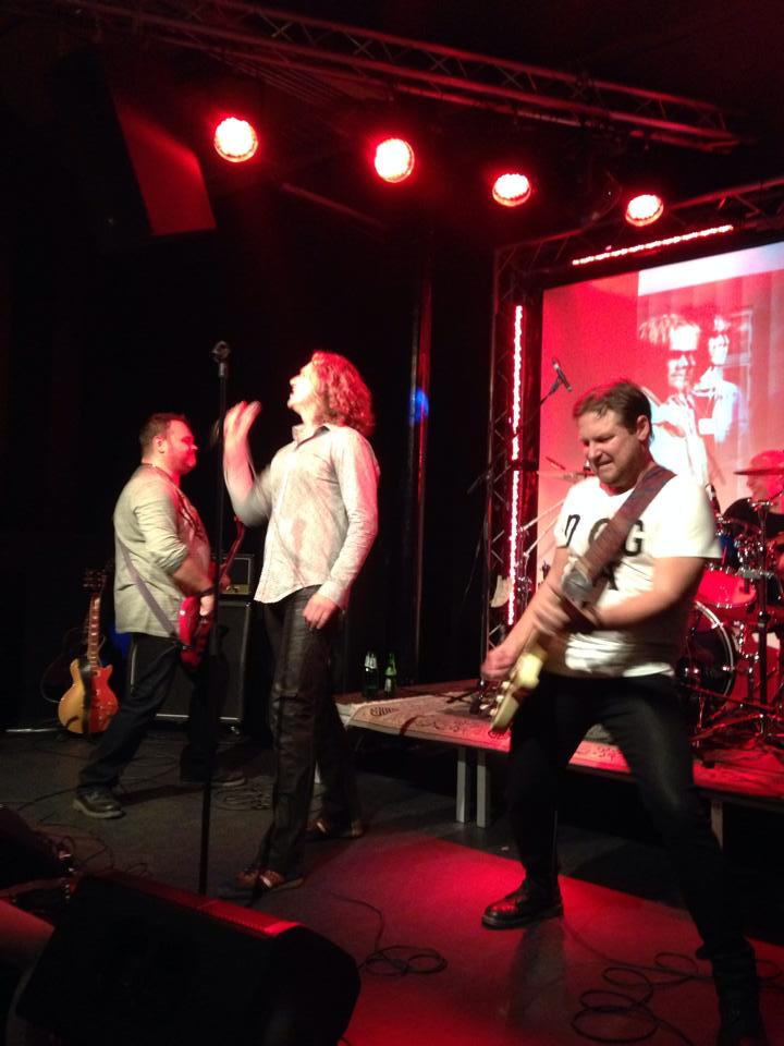 The Swedish band [gaeleri] live at Jutan, Helsingborg, Sweden 2014